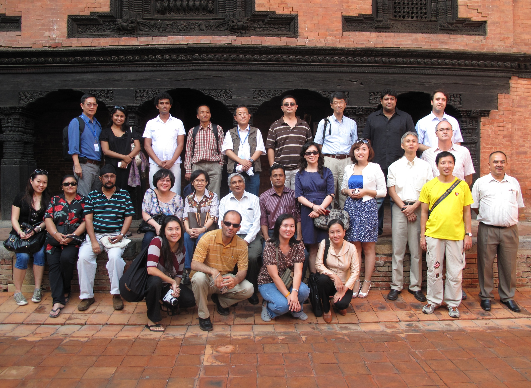 Group shot taken at the ABU News Group Meeting in Kathmandu, July 2011